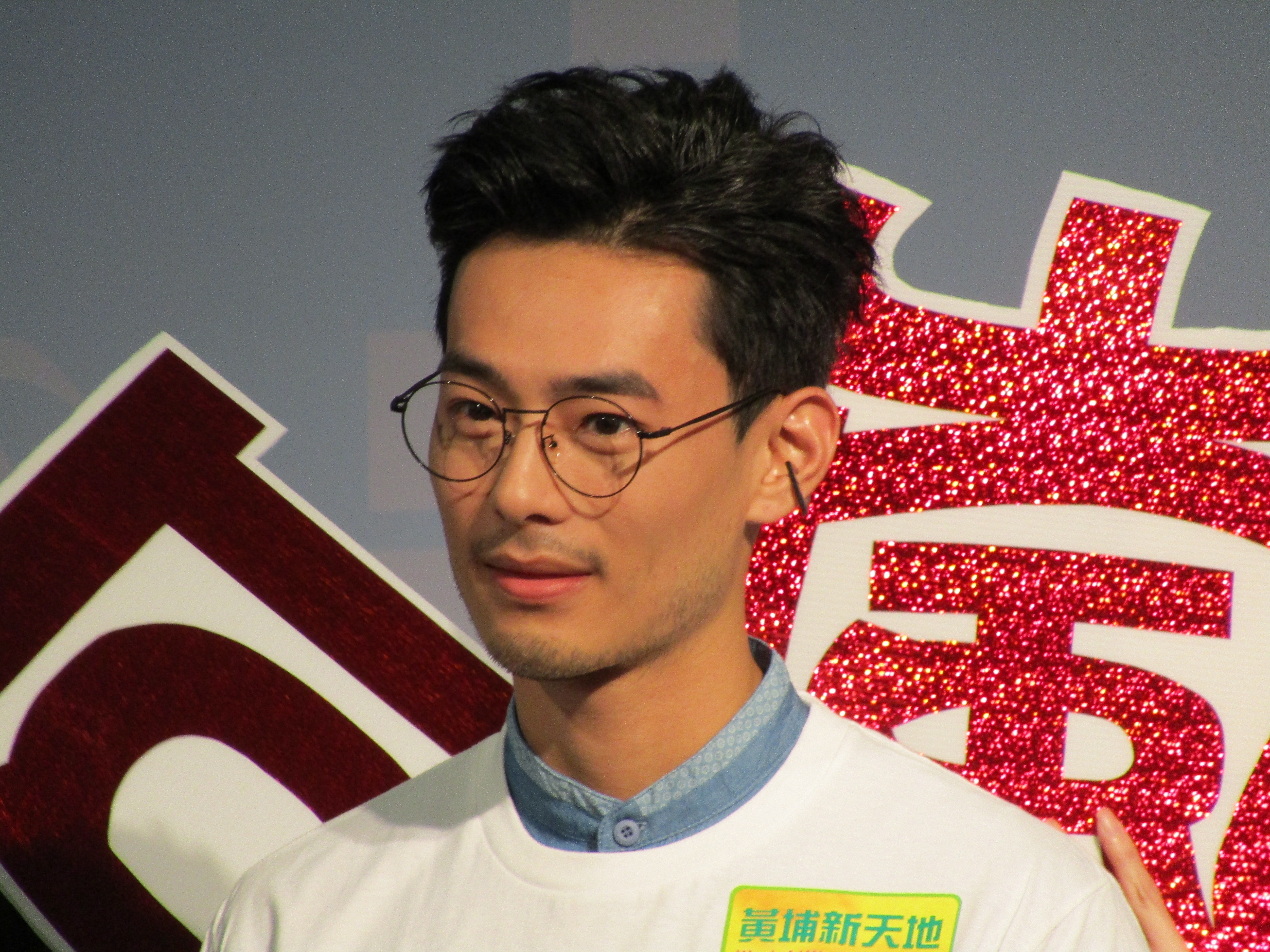 Dominic Ho is singing at Wonderful Worlds of Whampoa, Hung Hom